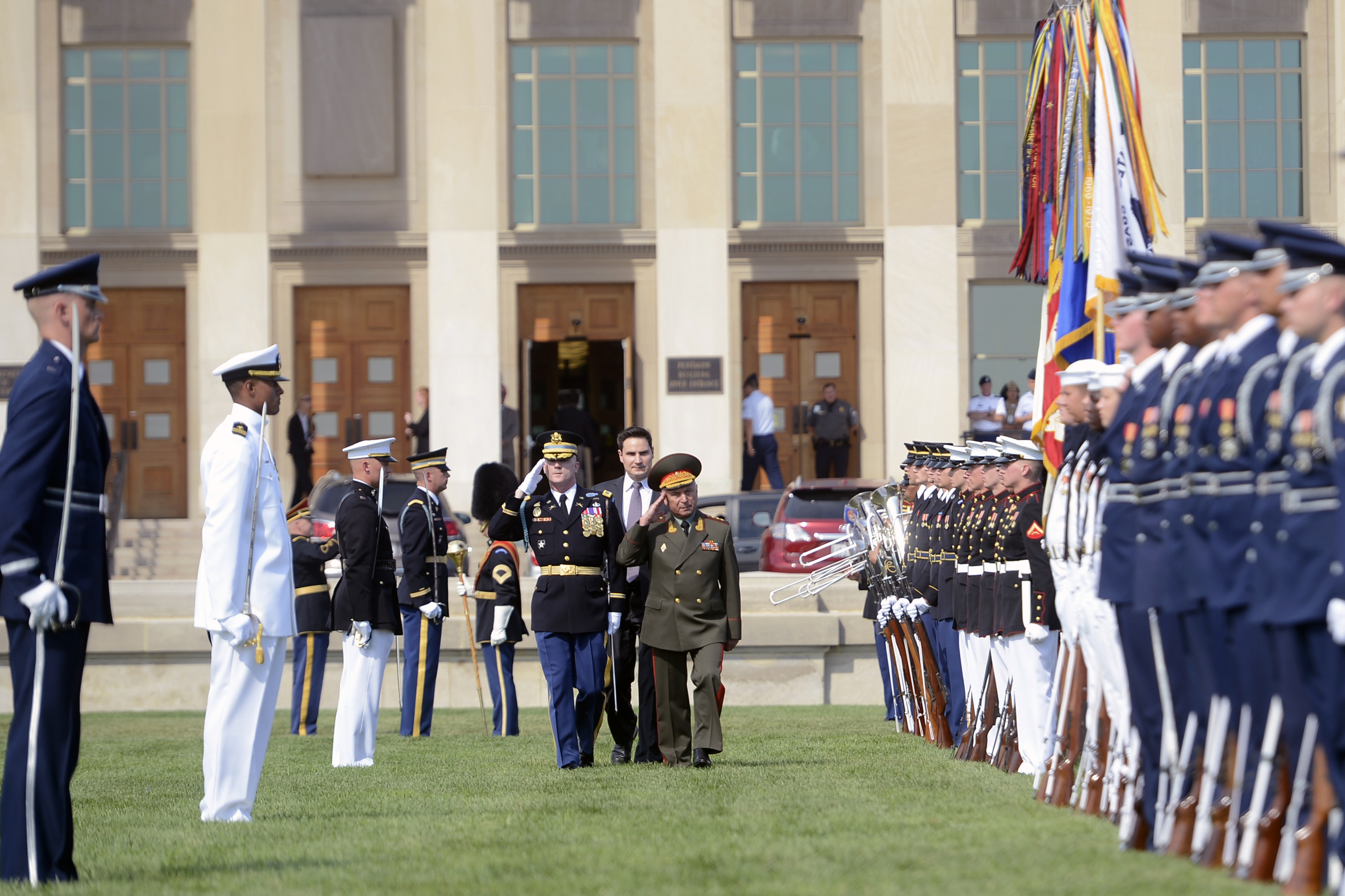 Russian Army Gen. Nikolay Y. Makarov, chief of the Russian general staff and first deputy defense minister general, center right, conducts a pass and review during a full honor cordon at the Pentagon, July 12, 2012.